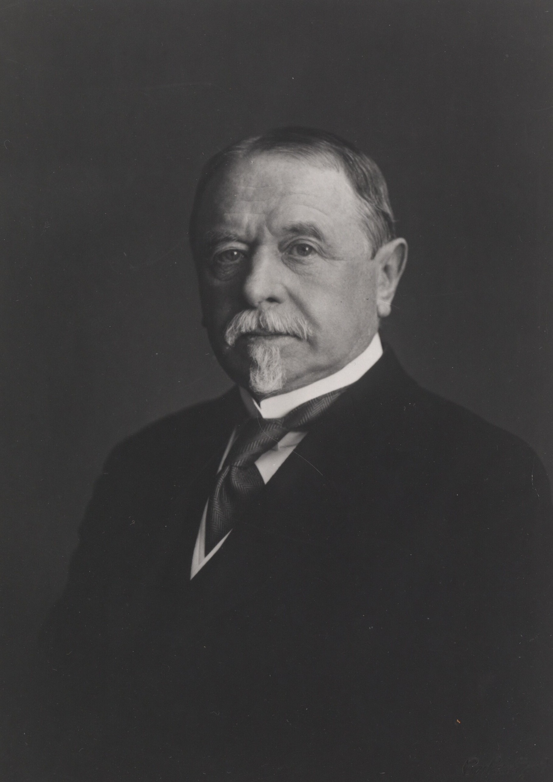 Christopher Friedenreich Hage (1848-1930), Danish merchant and Minister of Trade, MP